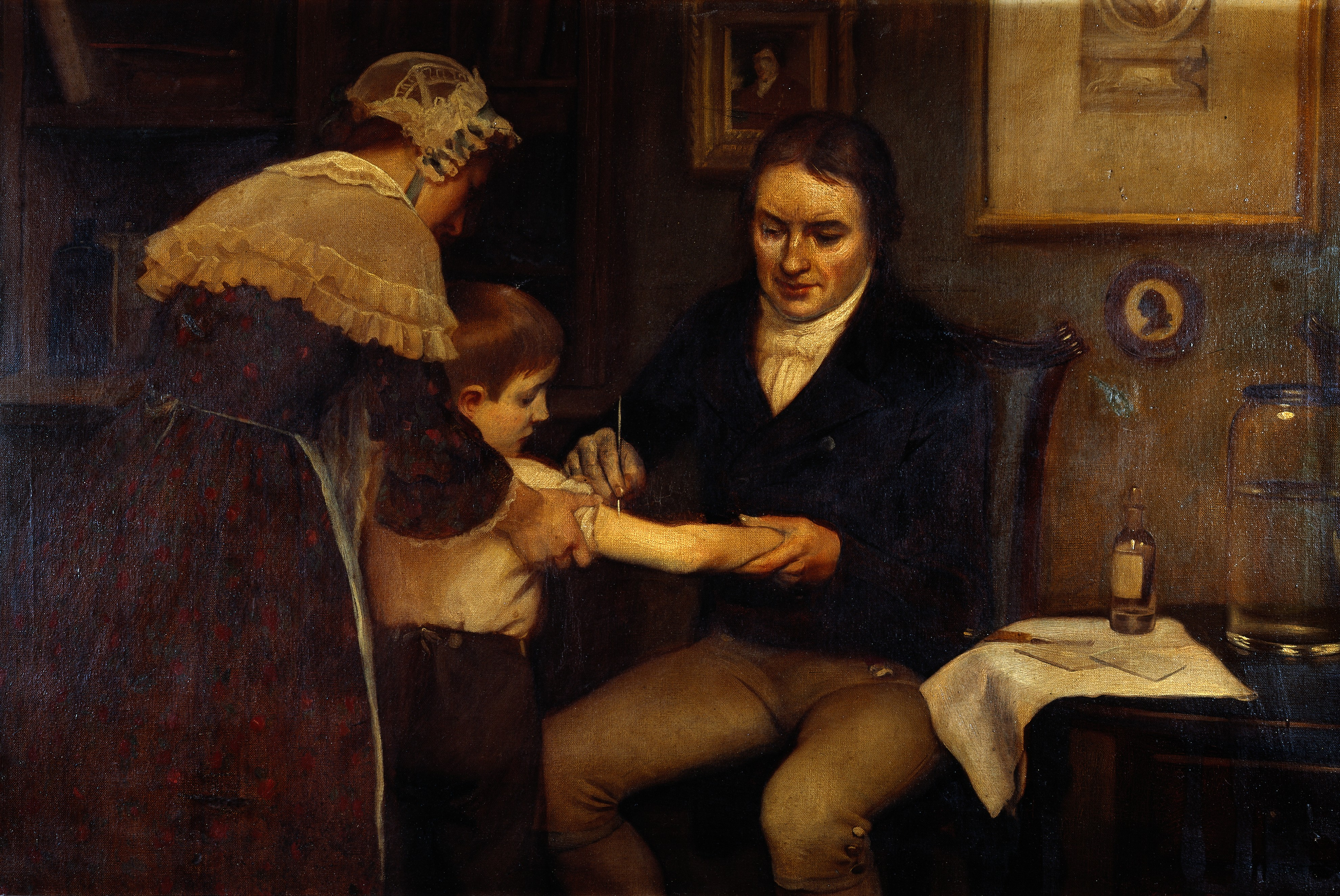 Dr Jenner performing his first vaccination on a child, 1796 Iconographic Collections Keywords: Vaccination; Immunization; Ernest Board; Edward Jenner; Disease Transmission, Infectious